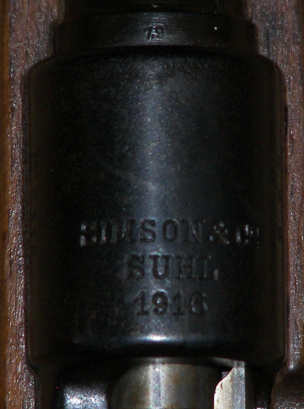 Receiver of a Gewehr 1898 produced by "Simson & Co, Suhl" in 1916, by Redxiv with permission of rifle's owner, released to public domain.